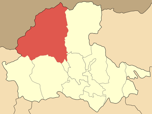 Locator map of Aridaias municipality (Δήμος Αριδαίας) at Pellas perfecture, Macedonia, Greece.